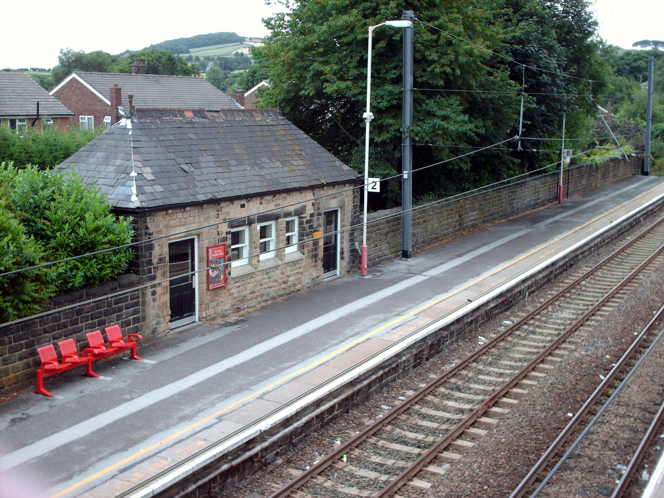 Menston railway station, West Yorkshire, England. Platform 2.